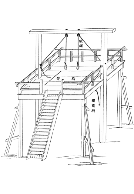 A part of "the 65th Rule of Dajokan in 1873". 明治6年太政官布告第65号図式その1